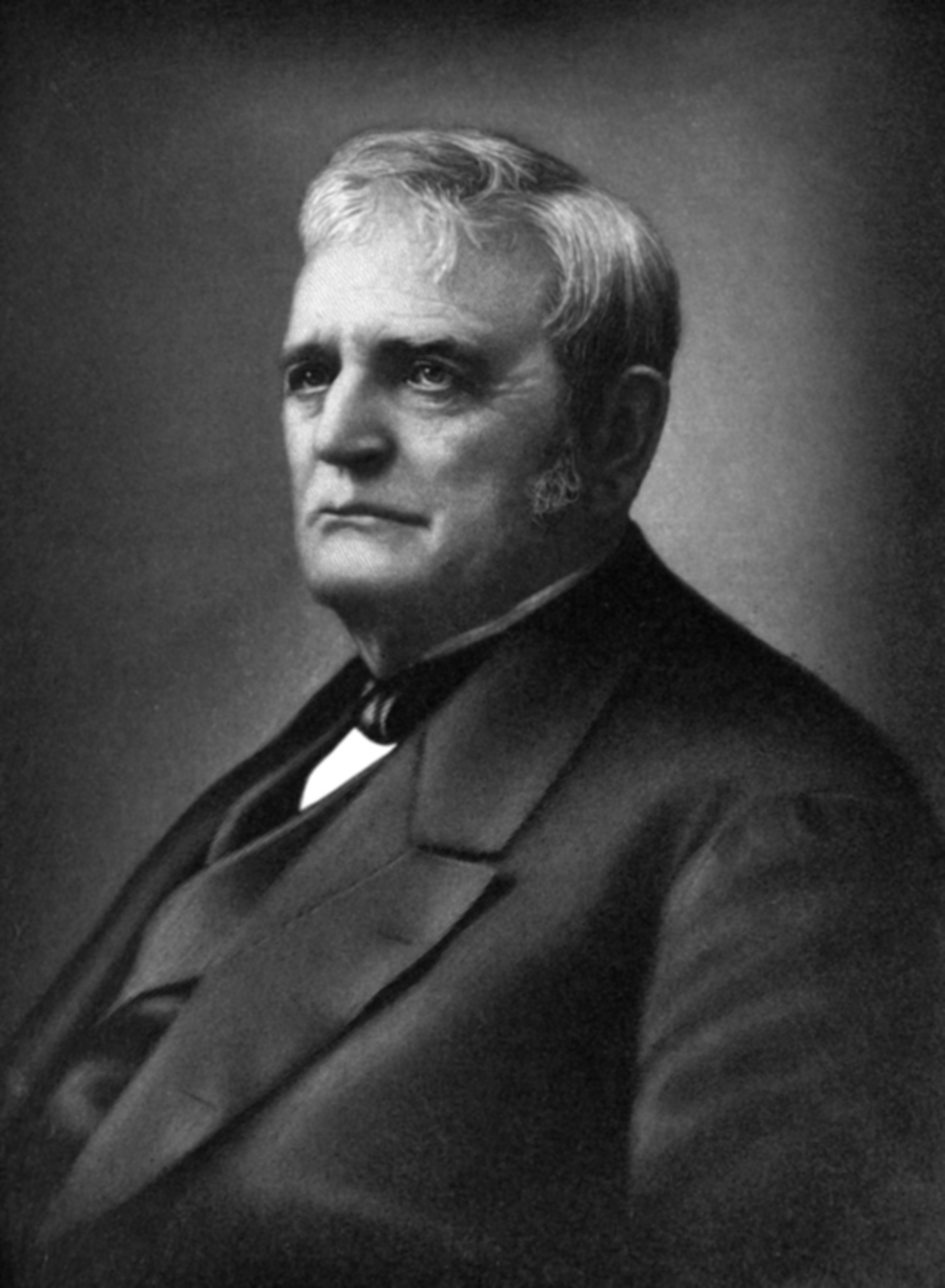 John Deere, portrait